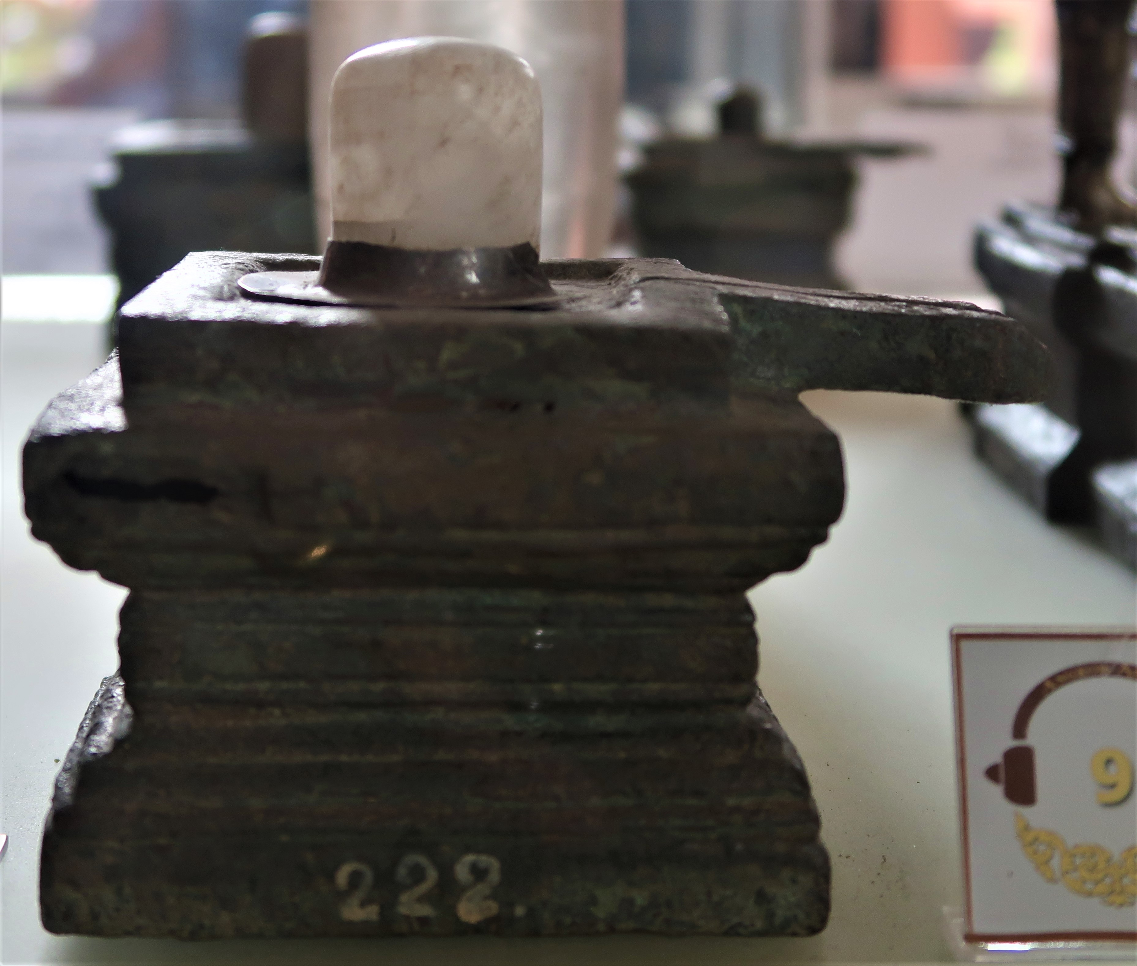 Shiva linga from Angkor period. Lingam found in Battambang Province and is made of Bronze, Quartz and Silver. On display at the National Museum of Cambodia.